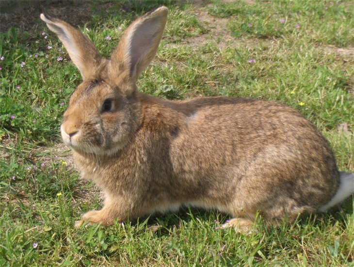 valencian giant rabbit